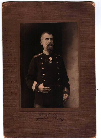 Spas Chilingirov in Thessaloniki 1913